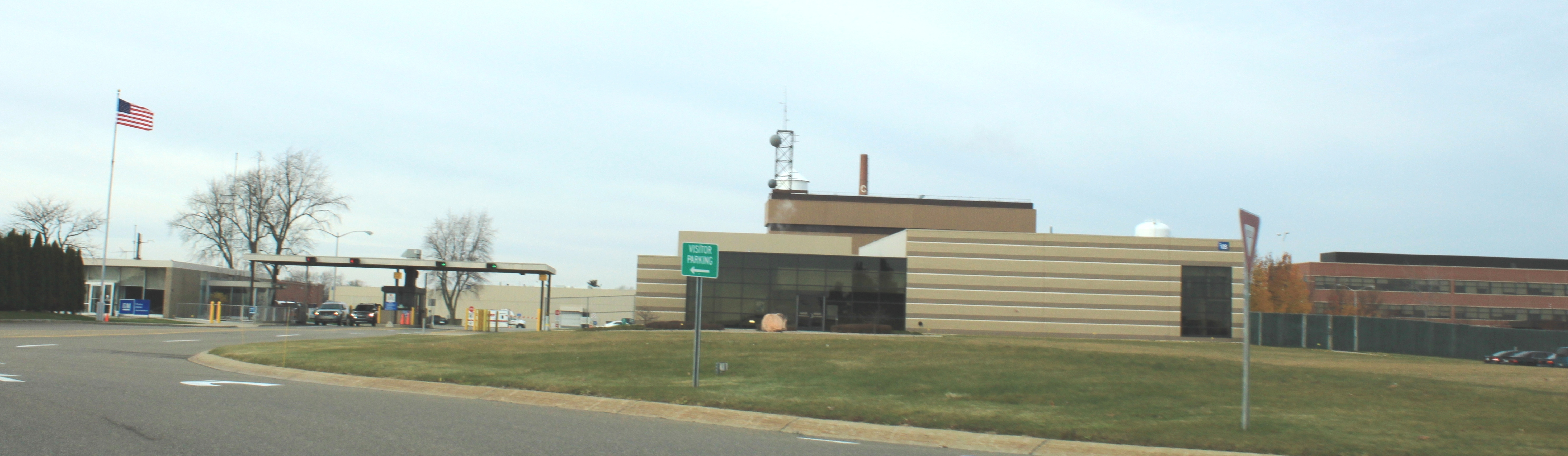 GM Proving Ground main gate, 3300 General Motors Road, Milford, Michigan